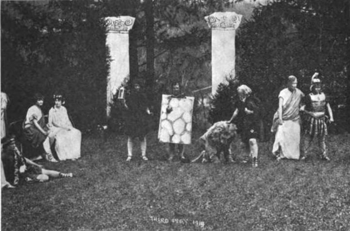 The Philaletheis Society of Vassar College producing Shakespeare's A Midsummer Night's Dream. Caption on image reads "Third Play 1914". Caption below image reads "The Weavers in 'A Midsummer Night's Dream'".